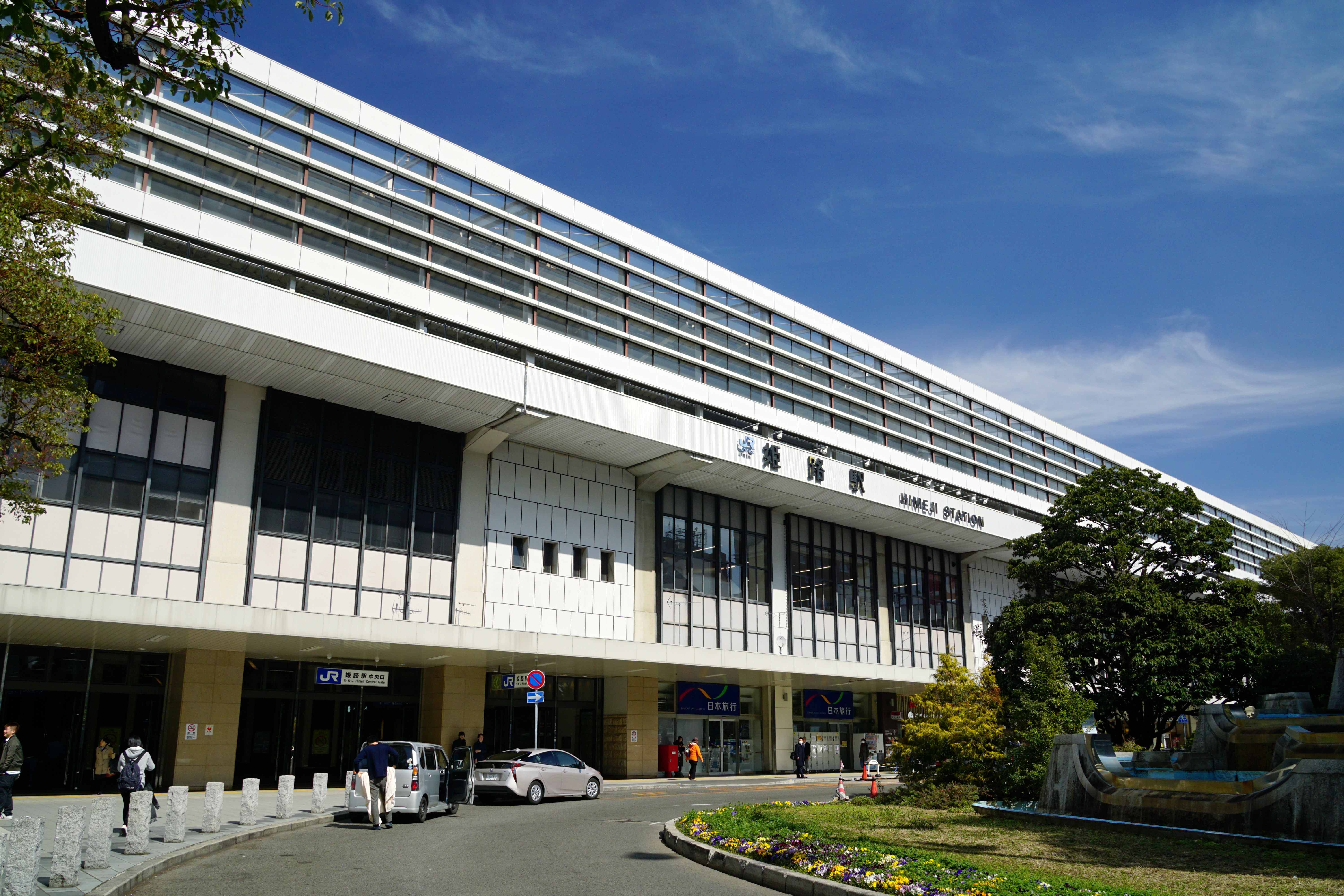 The south side of Himeji Station in Himeji, Hyogo prefecture, Japan